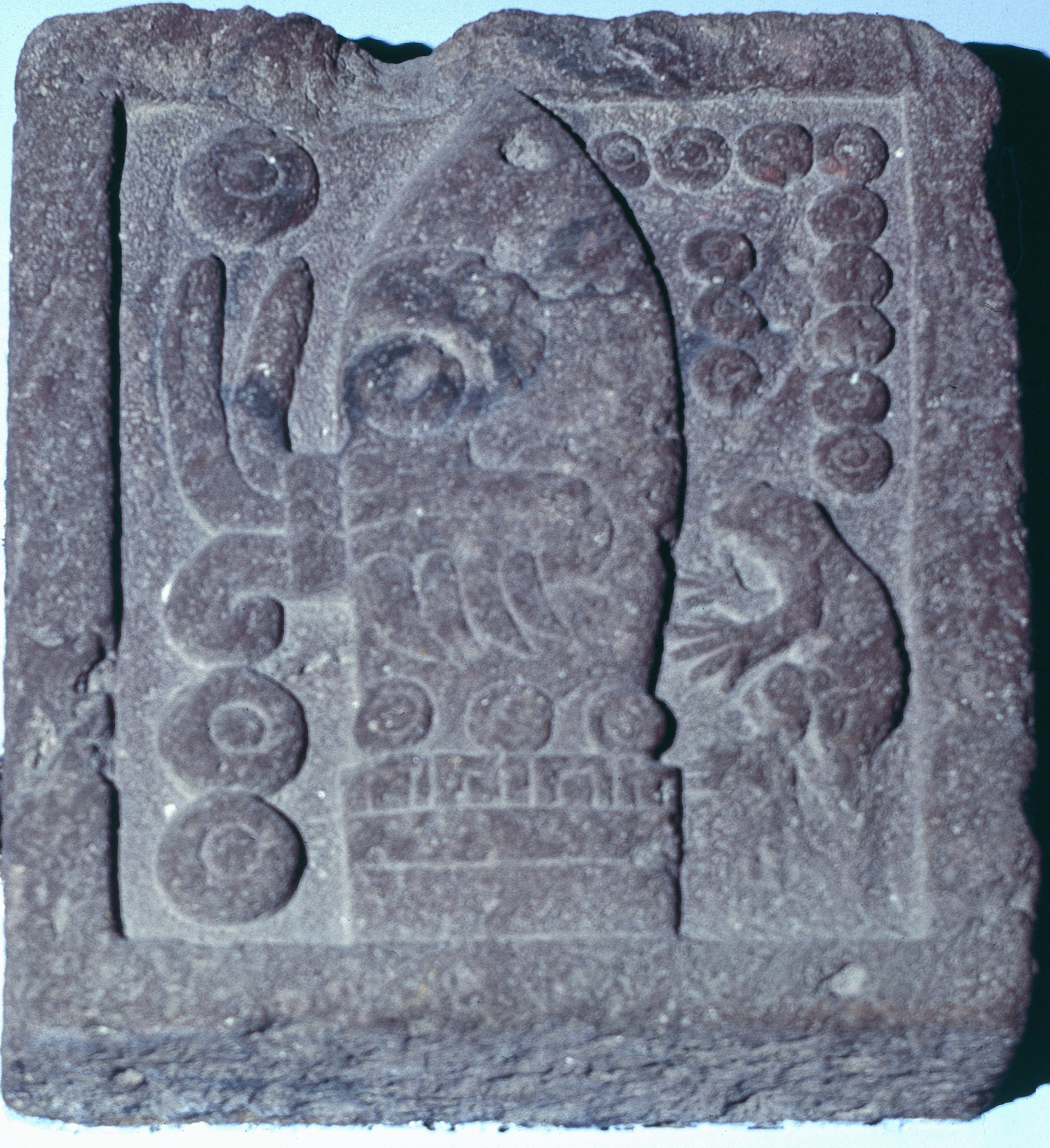 Aztec date (Museo Nacional de Antropología, Mexico City)